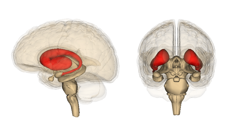 Striatum. Images are from Anatomography maintained by Life Science Databases(LSDB).